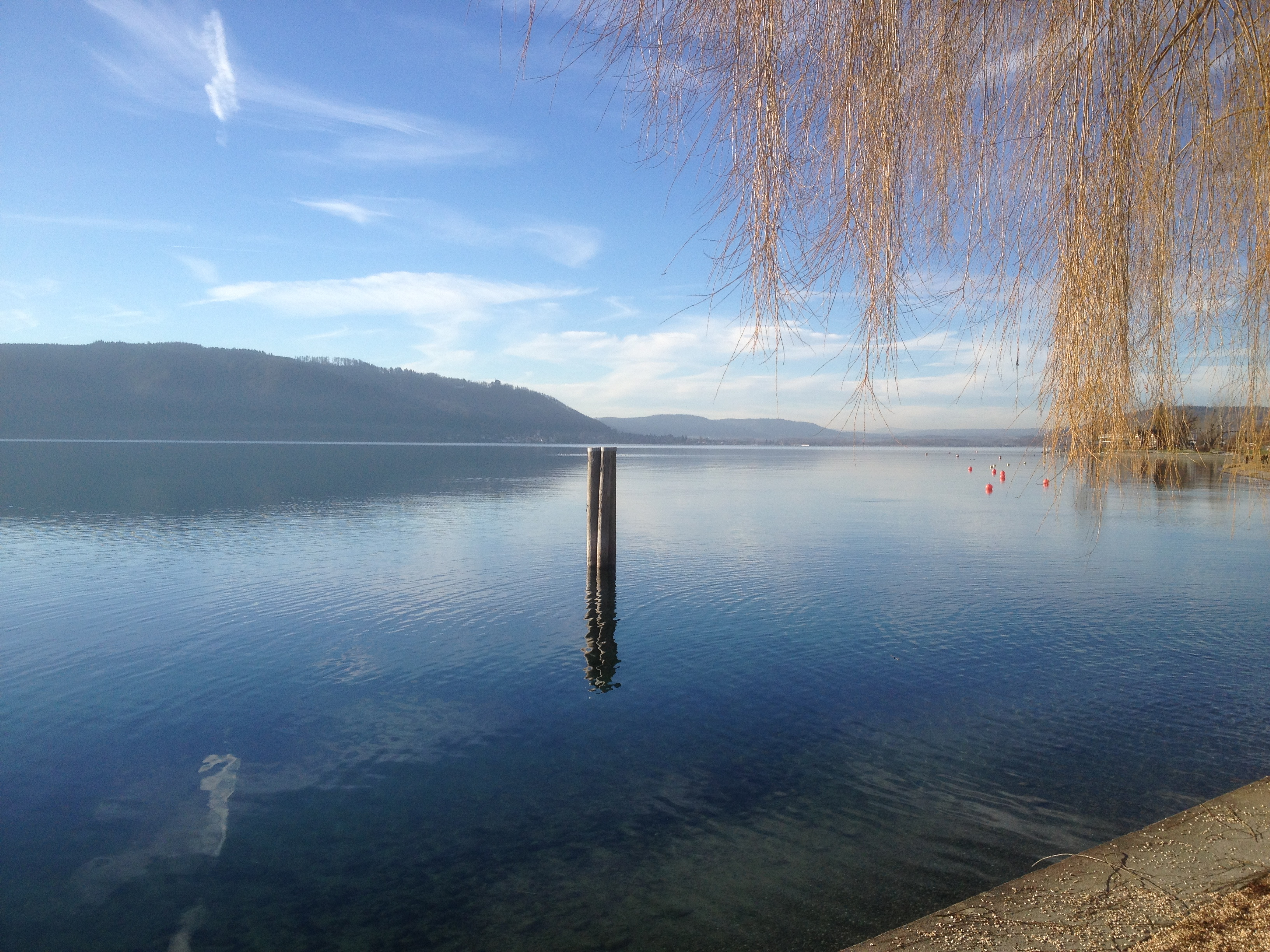 Germany - Baden-Württemberg - district Bodenseekreis - Sipplingen: Lake Constance